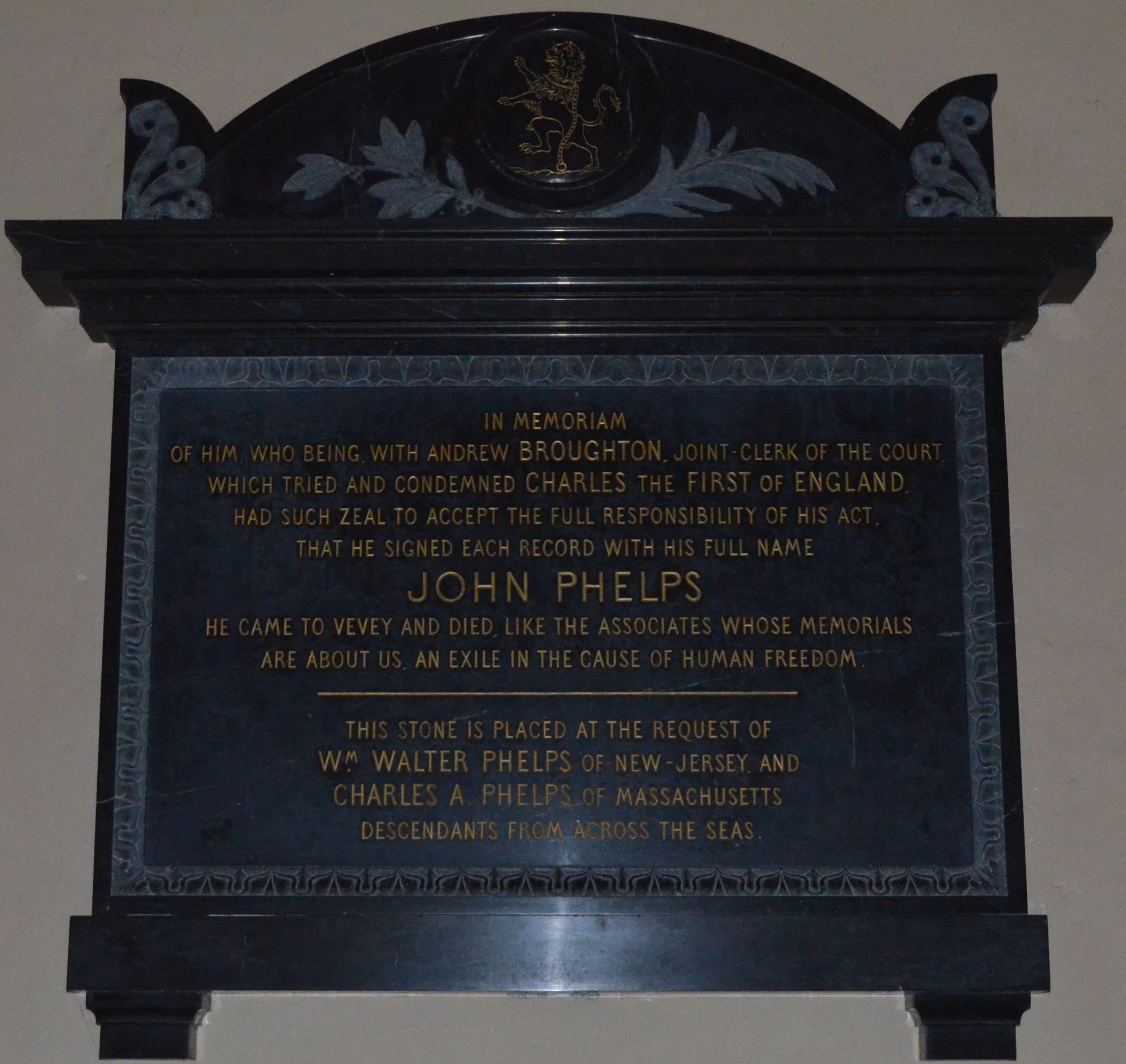 The text of the monument reads: Mermoriam Of Him who being with Andrew Broughton joint clerk of the Court which tried and condemned Charles the First of England, had such zeal to accept the full responsibility of his act, that he signed each record with his full name John Phelps. He came to Vevey, and died like the associates whose memorials are about us, an exile in the cause of human freedom. This slab is placed at the request of William Walter Phelps of New Jersey, and Charles A. Phelps of Massachusetts, descendants from across the seas.